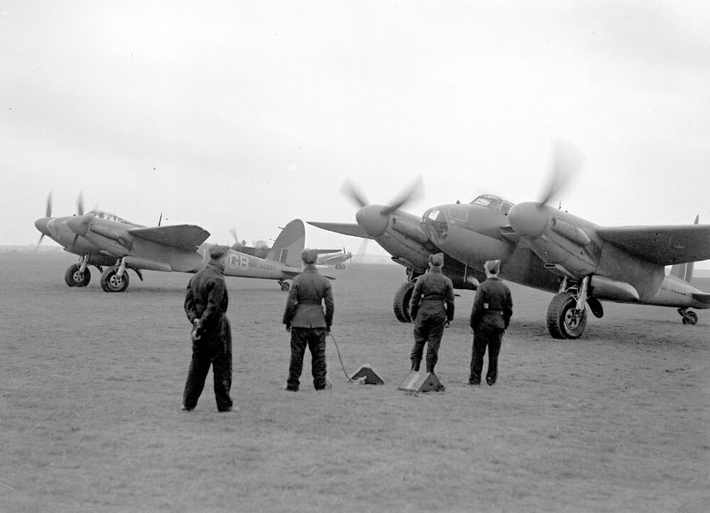 Mosquito Bombers at RAF base